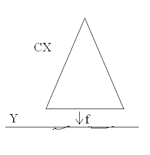 A picture of a mapping cone.